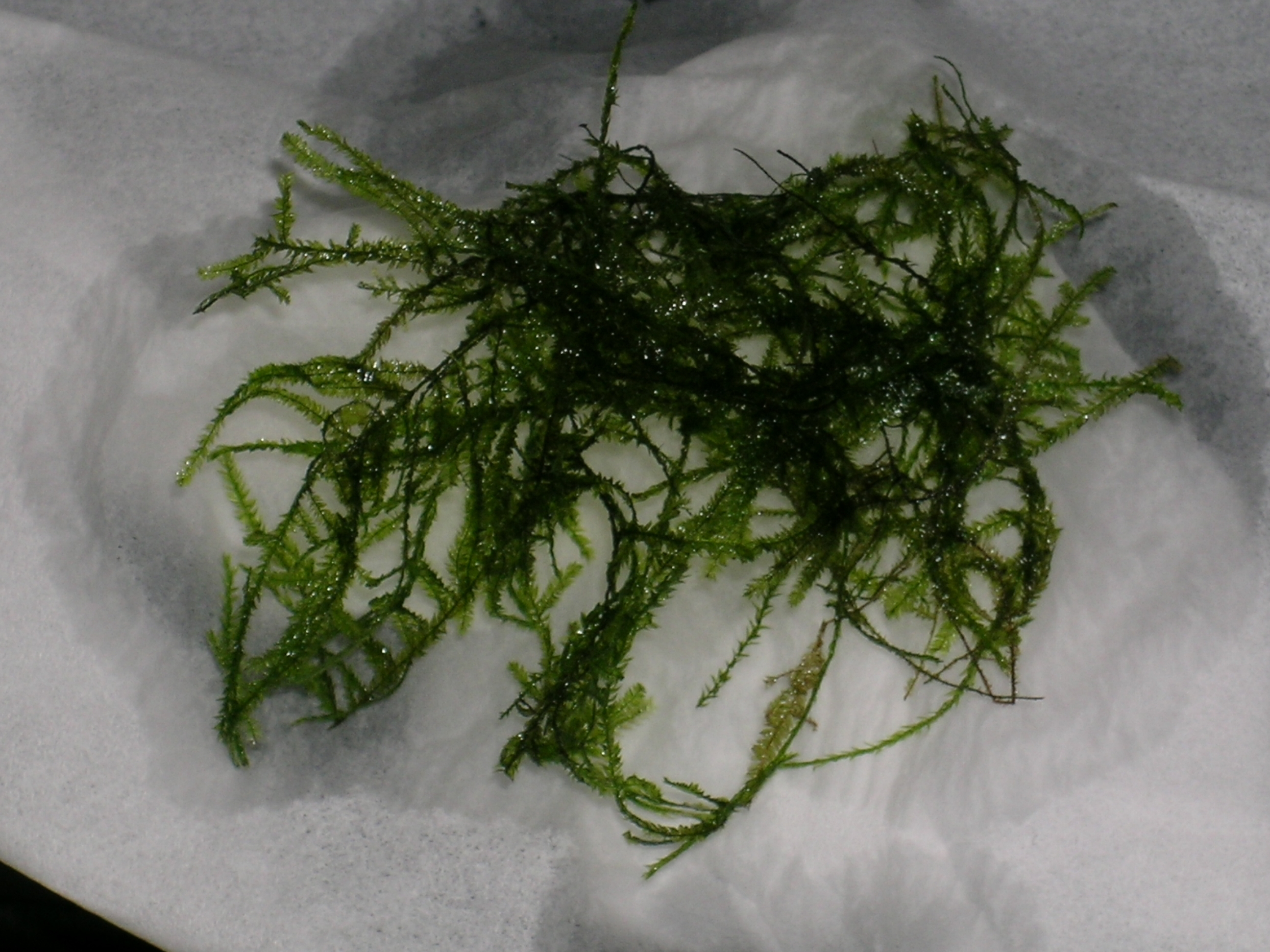 Willow moss is popular aquarium plant.This use in home aquarium. It is one's private property.Take a photograph in my home. photo:S.Tanaka